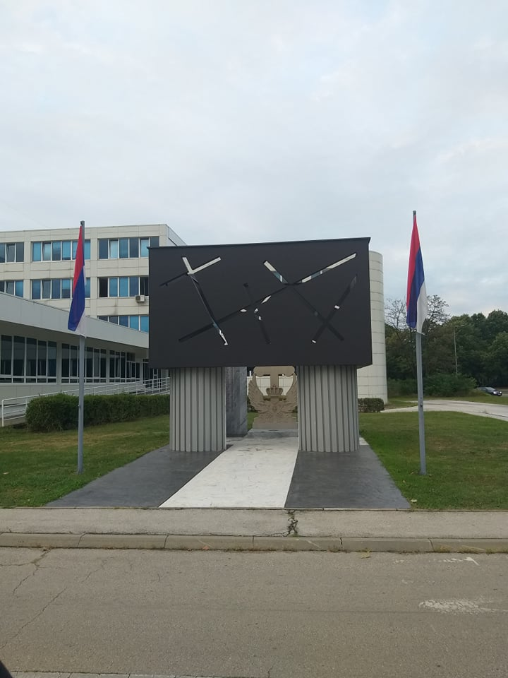 Central monument to fallen 782 police officers during War in Bosnia and Herzegovina. Monument is located in front of building of Administration of the Ministry of Interior of Republika Srpska in Banja Luka. Monument is revealed on Day of the Police of Republika Srpska 2017 by former president of Republika Srpska Milorad Dodik, minister of interior Dragan Lukač and Ivana Lizdek, daughter of the fallen police officer on Vraca.